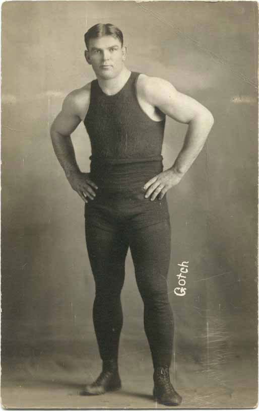 Photo of professional wrestler Frank Gotch. Photo was taken before his death in 1917.